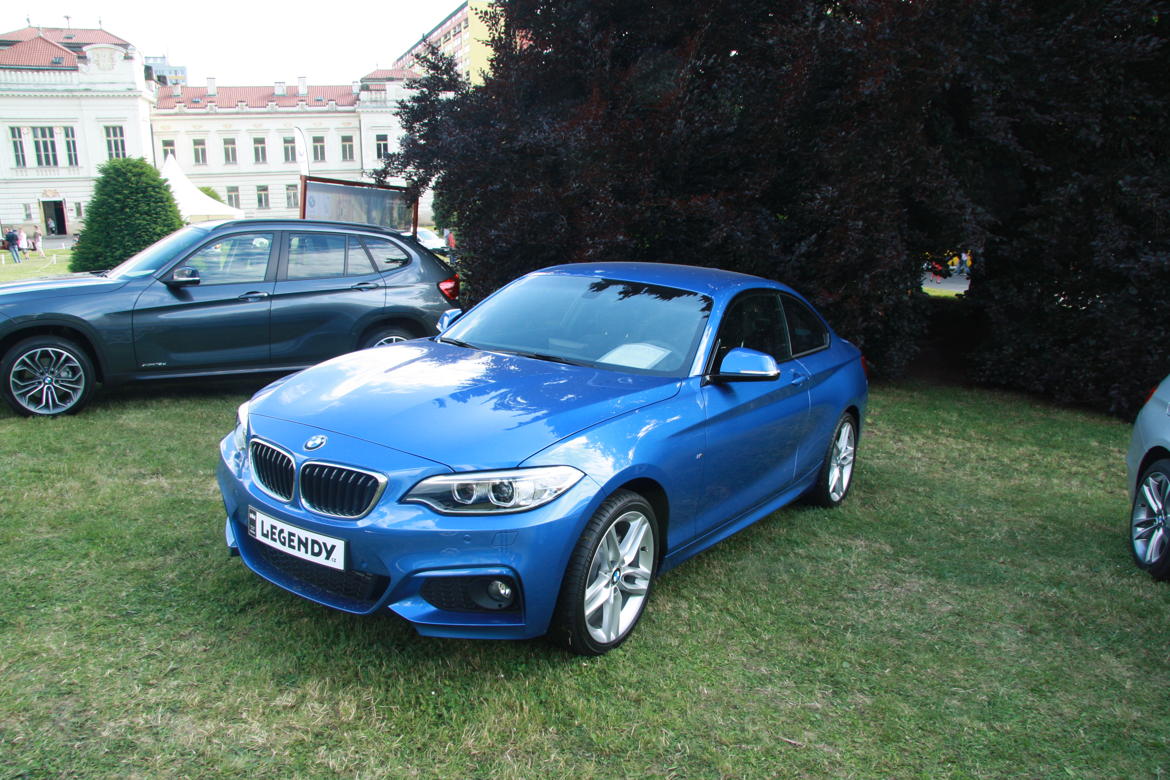 BMW 220d at Legendy 2014.